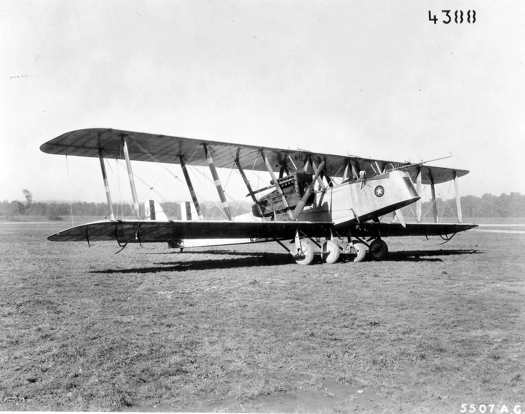 Martin MB-1, front right three-quarter view, Army Air Service serial number 39059, with McCook Field project number P104. (This aircraft was later modified to have a third engine in the nose.)